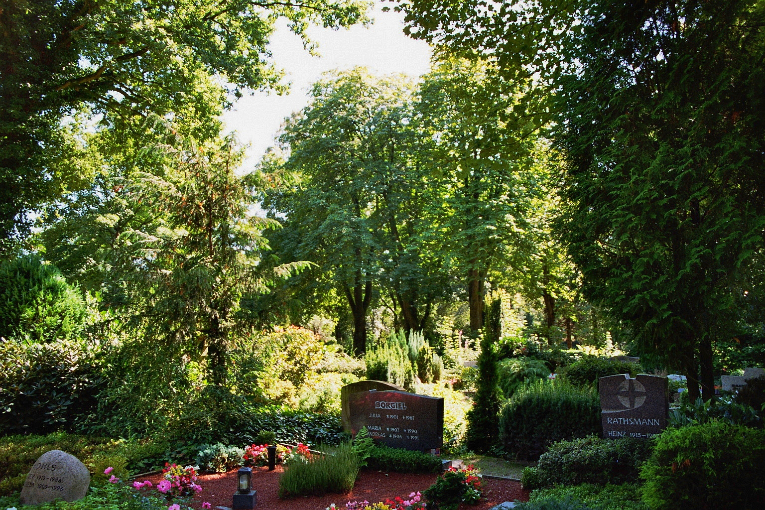 Central Cemetery (Zentralfriedhof) in Ibbenbüren, Kreis Steinfurt, North Rhine-Westphalia, Germany.